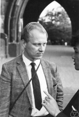 Mathematician Jürgen Moser in Tokyo, 1969.